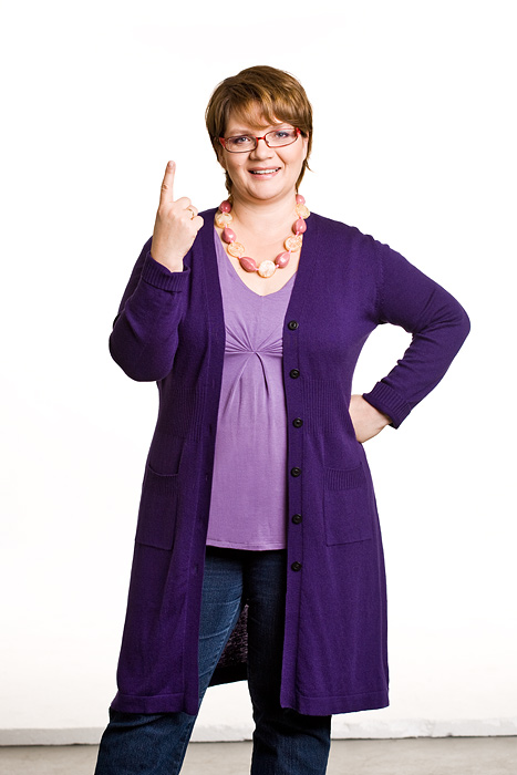 Picture of Dorota Zawadzka